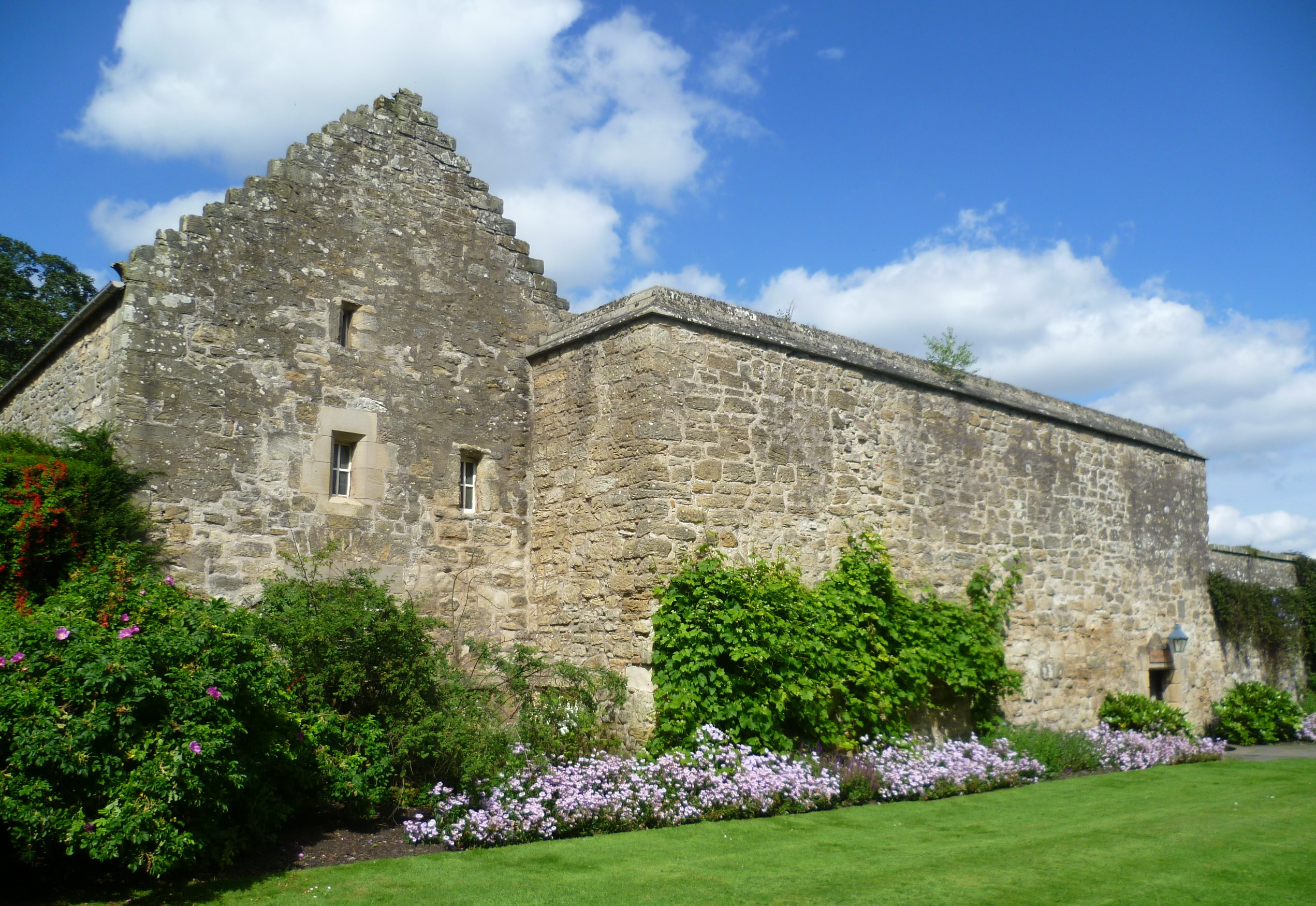 Real Tennis Court building, Falkland Palace, Fife